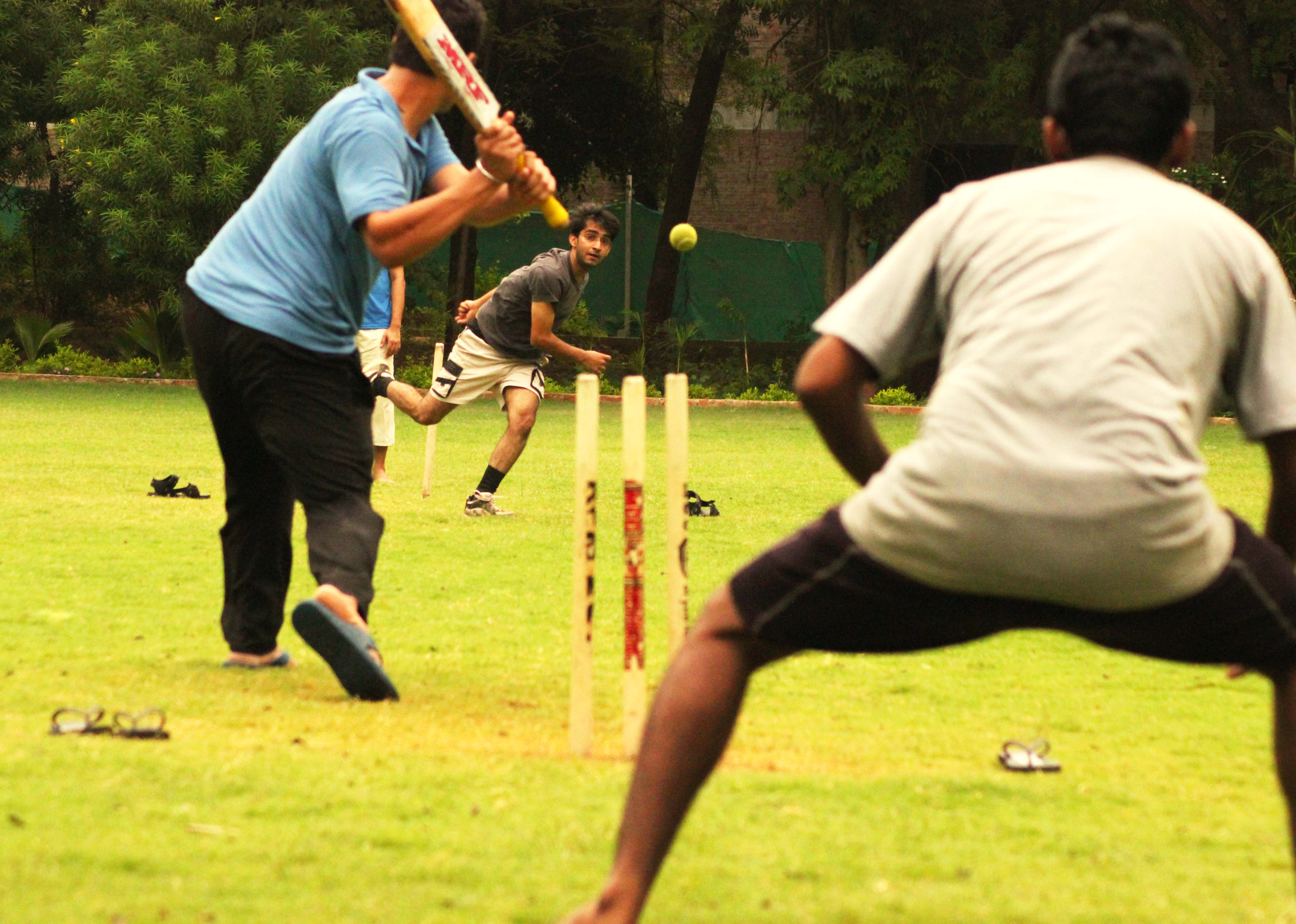 Cricket is the staple game in India for people of all ages. Here young boys play cricket on morning in June.